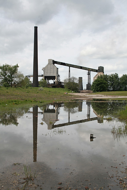 Monckton Coking Plant This plant is the last remaining UK coking plant that is not cirectly connected with the steel industry. Principal products are smokeless fuels and the benzene-related petrochemicals. Gas from the coking process also powers a modern generating unit allowing electricity to be produced and fed into the national grid. The view is from the site of the former Monckton Colliery to which the coking plant was originally attached.